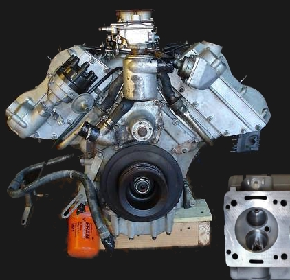 Aston Martin V8 with hemi chamber shown